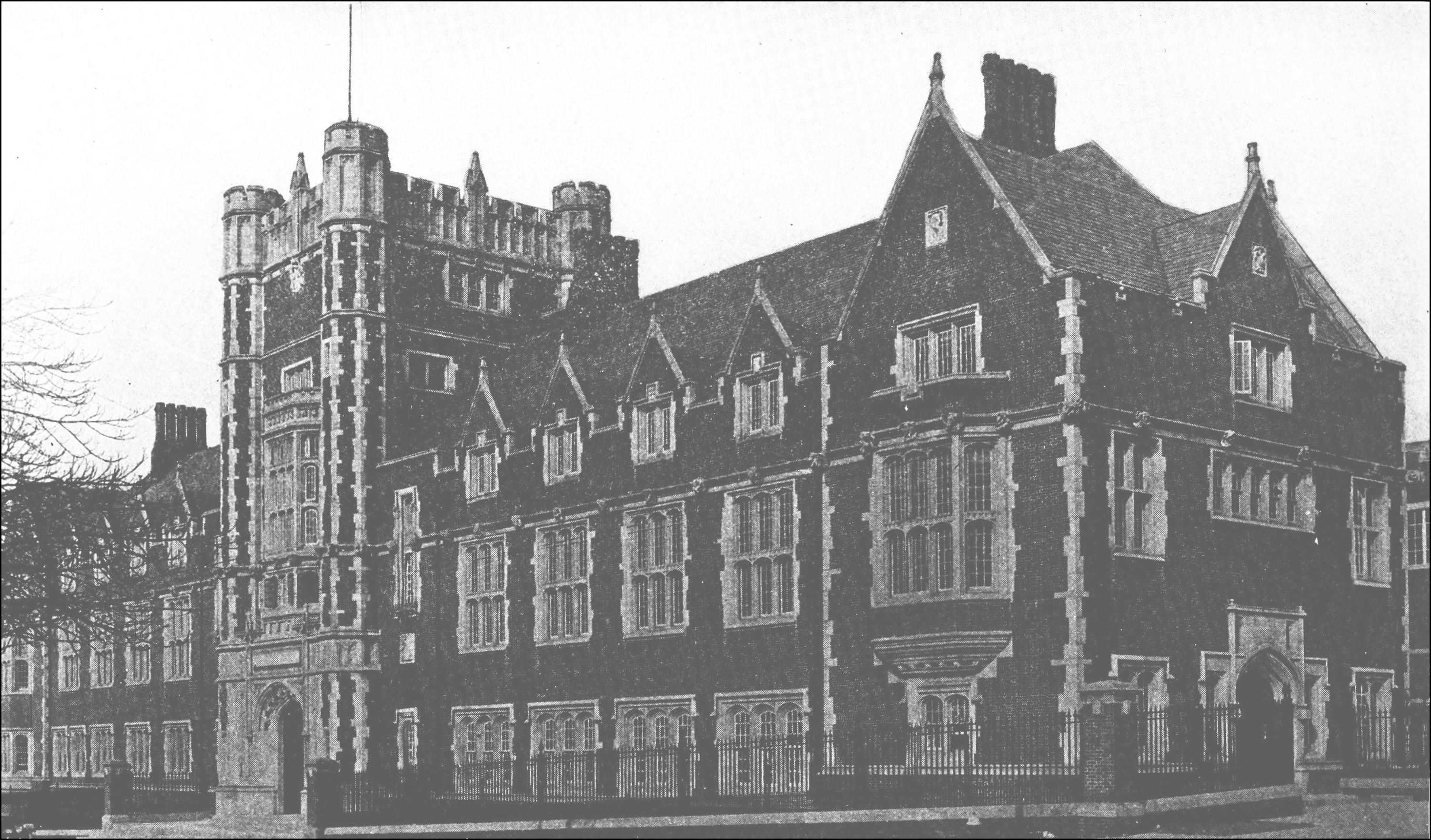 The Thomas W. Evans Museum and Dental Institute